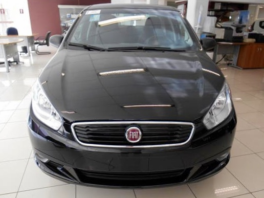 Fiat Grand Siena 326 1.0 Fire flex engine facelift